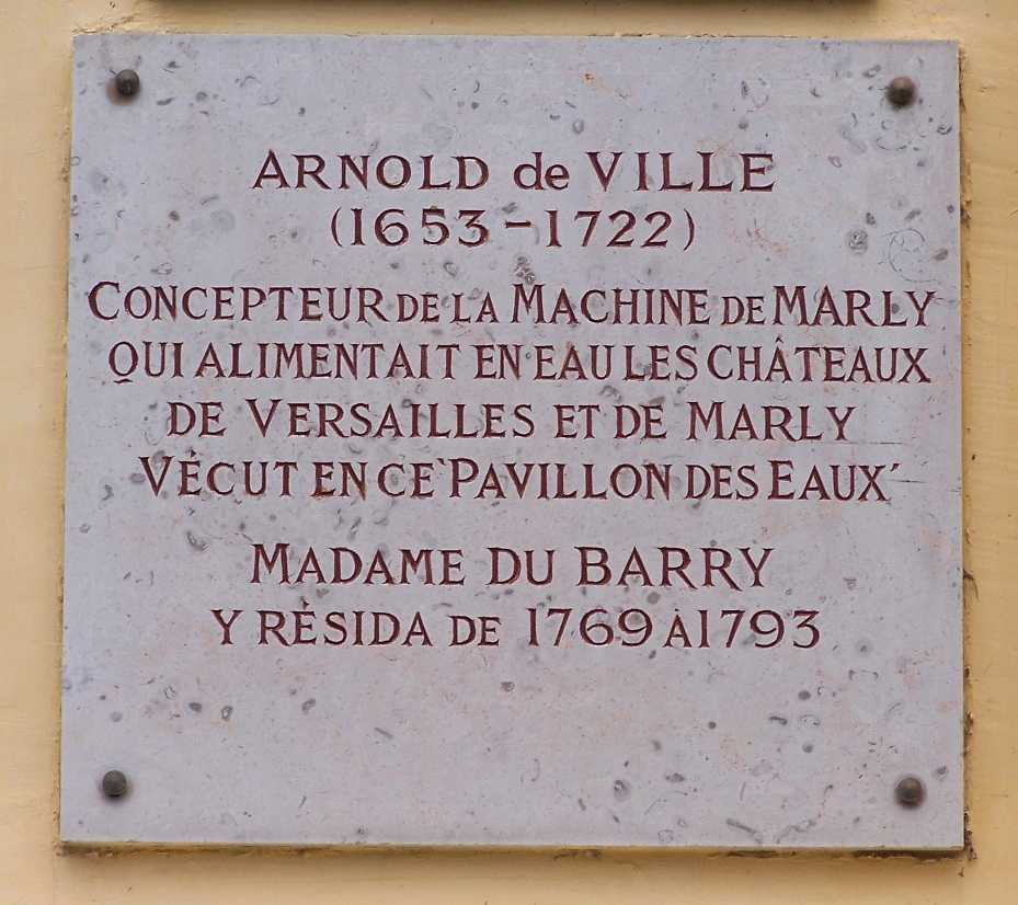 Commemorative sign for Arnold de Ville on the Pavilion of Waters in the path of the Machine in the village of Voisins in Louveciennes (Yvelines, France)